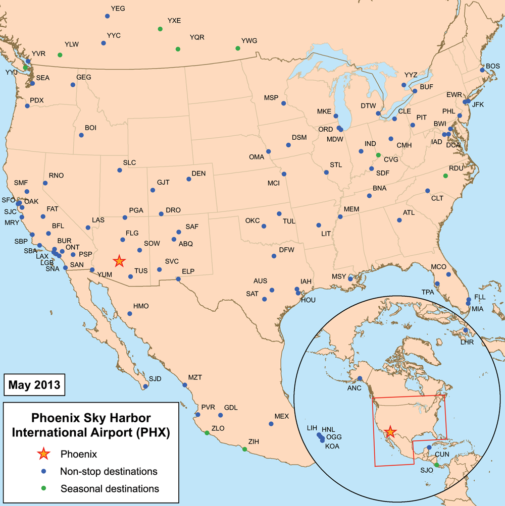 This is a route map for Phoenix Sky Harbor International Airport in Phoenix, Arizona as of May 2013. Map is an Azimuthal equidistant projection centered on the airport so straight lines from Phoenix are along great circle routes. Destinations gathered from individual airline websites.